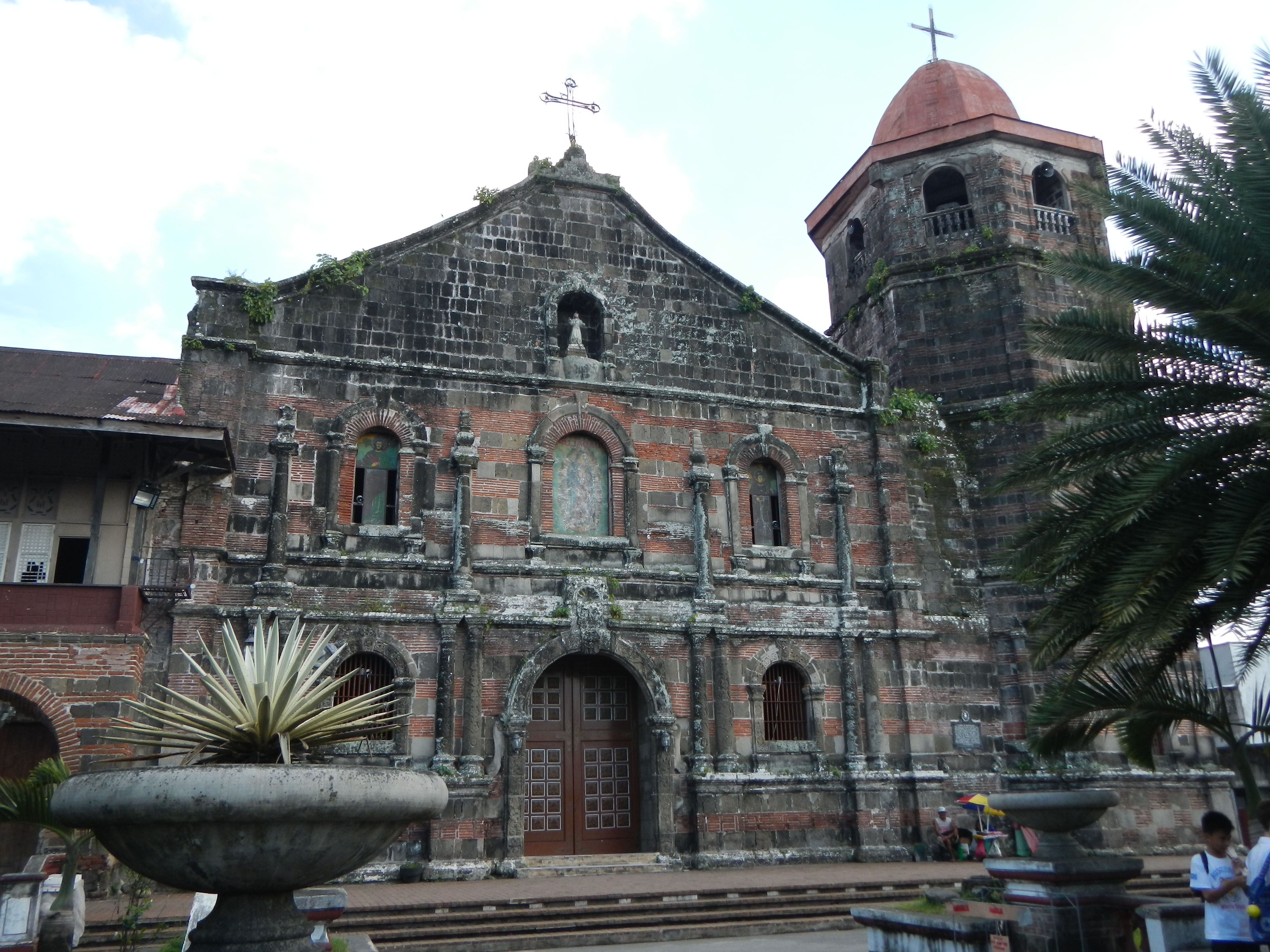 UploadWizard photos --- (general description) of (landmarks, heritage, culture, comprehensive, photography) of – the Nagcarlan Cocpit Arena and the – Vicariate of San Bartolome Apostol - San Bartolome Apostol Parish Church of Nagcarlan - belongs to the Roman Catholic Diocese of San Pablo [1] -- Nagcarlan, Laguna [2] Episcopal District III [3] Vicar Forane: Father Larry R. Abayon Address: Poblacion, Nagcarlan 4002 Laguna, Philippines Feast day: August 24 Parish Priest: Father Larry R. Abayon, VF (Note: I decided to come back and re-photograph this historic and imposing Church, for the sun, this time, did shine upon this magnifiscent building, landmark the photos are portraits of its glory).